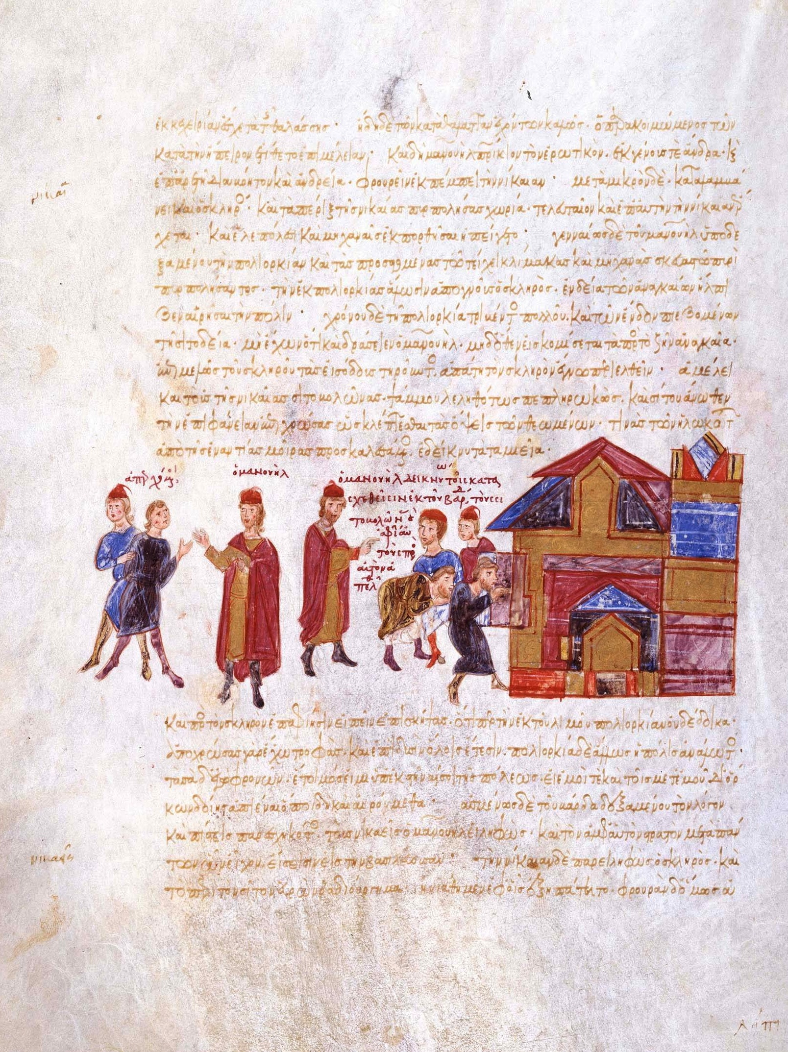 Manuel Erotikos Komnenos shows the full granaris of Nicaea to prisoners. An illuminated manuscript page from Synopsis historiarum by Ioannes Scylitza (fl. 1081); 27 x 36 cm; Location: Biblioteca Nacional de España, Madrid, Spain